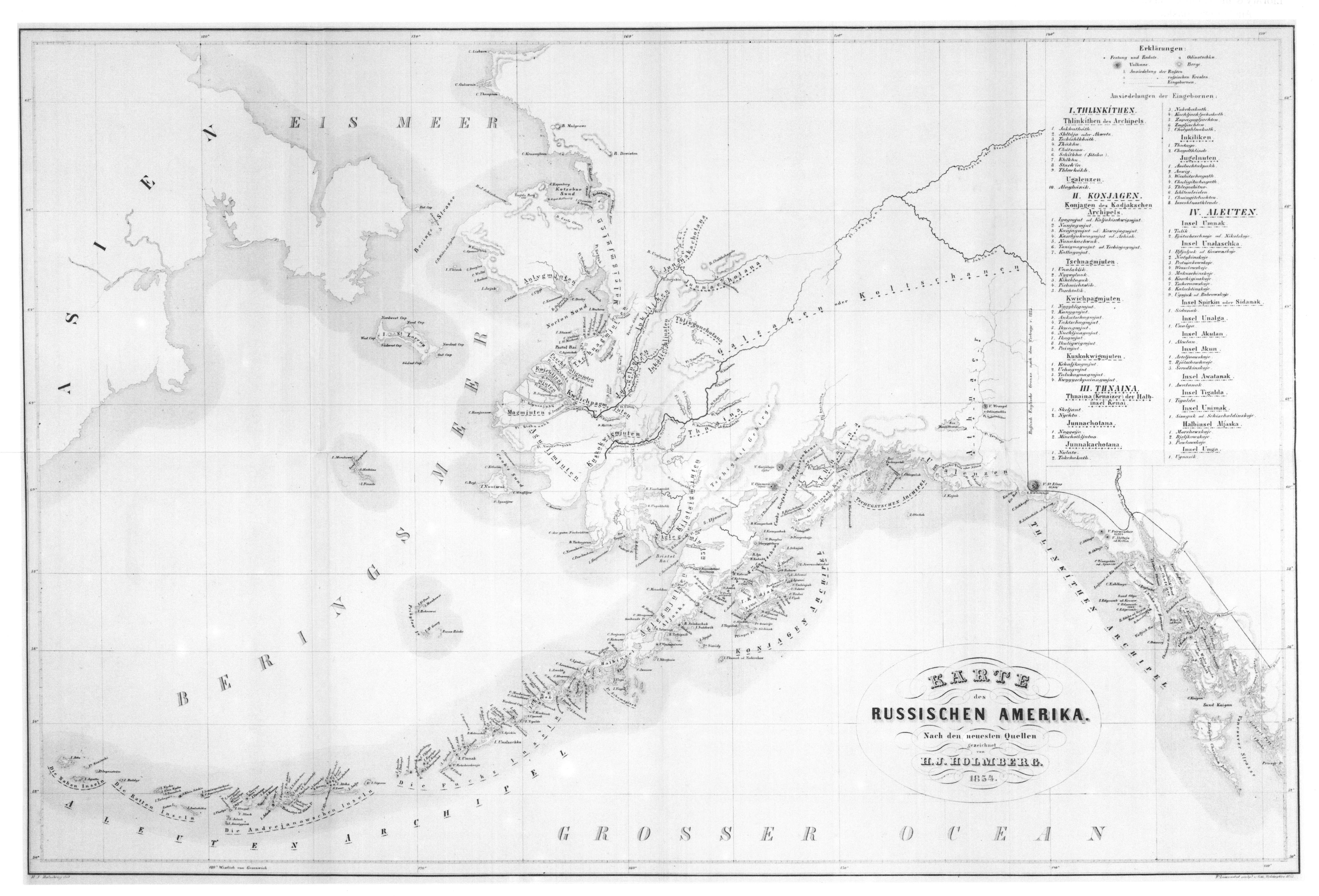 Heinrich (or Henrik) Johan Holmberg's 1854 Karte des Russischen Amerika (Map of Russian America). Holmberg was a Finnish geologist, ethnographer, and Inspector for Fish Culture: see David M. Damkaer (2002) The Copepodologist's Cabinet: A Biographical and Bibliographical History, Philadelphia, Penn.: American Philosophical Society, p. 268 ISBN 978-0-871-69240-5 The map is a scan of a copy from a 1985 English translation of the original 1856 source.